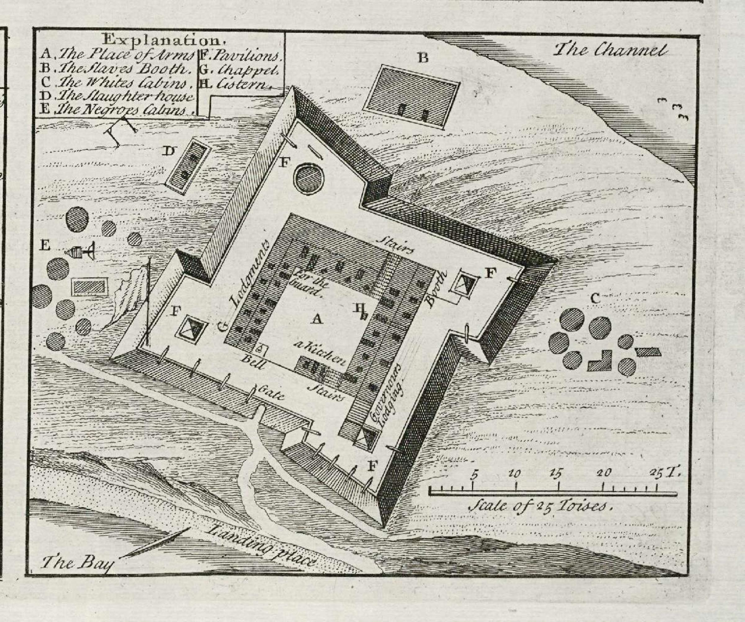 Floor plan of the fort on the island of Goeree. Key: A-H. Until 1677 the island of Goeree was held by the Dutch, thereafter it went to France.